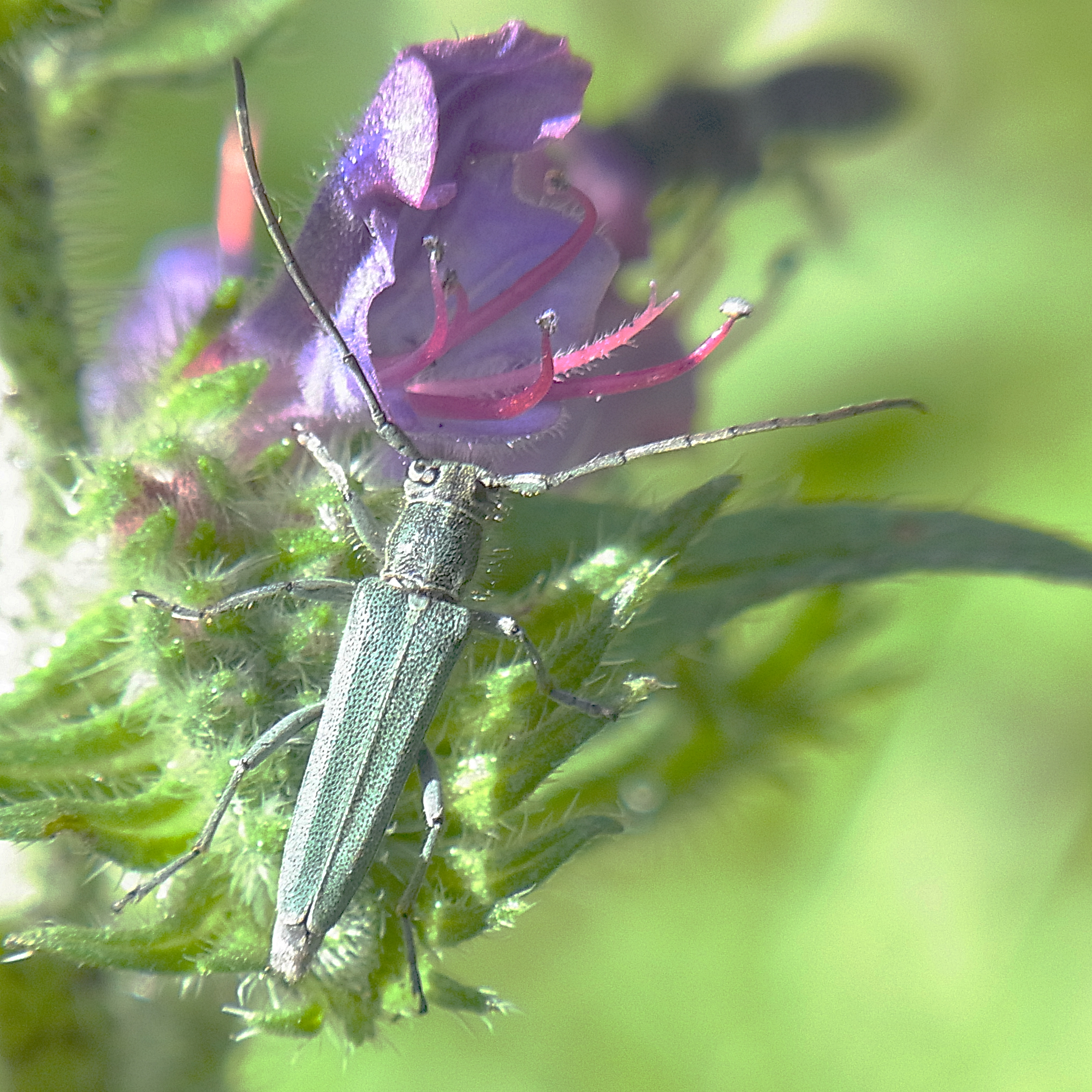 Phytoecia coerulescens on riverside on Echium sp in France, north of Carcassonne